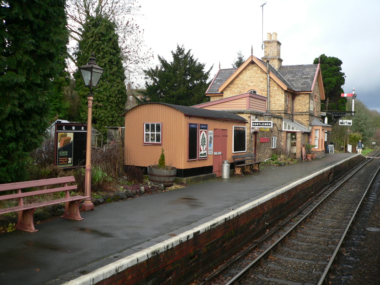 A view of Hampton Loade station on the Severn Valley Railway from a southbound service.